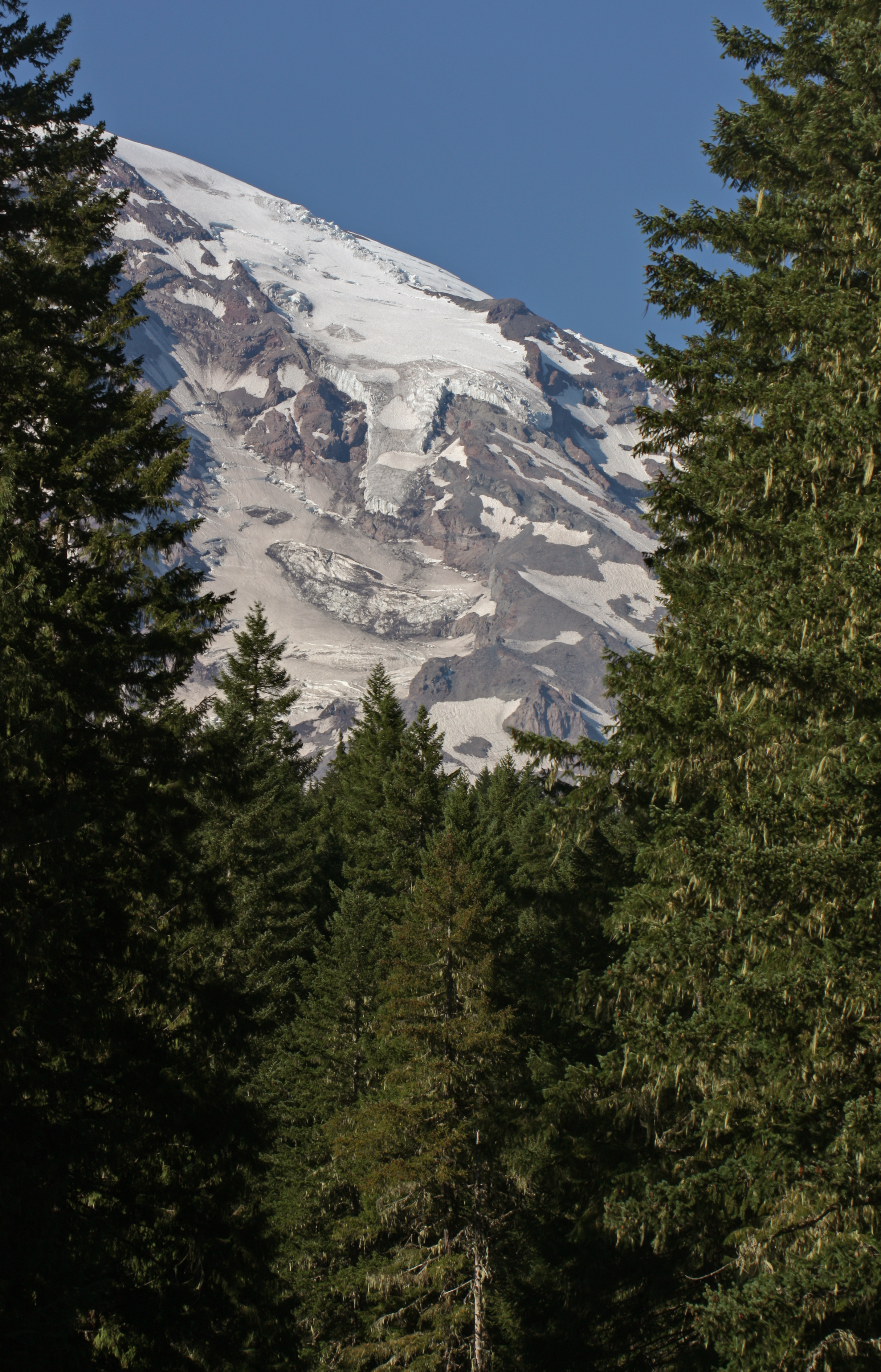 Kautz Glacier (left center); Wapowety Cleaver (right center); Kautz Glacier Headwall (upper left); merged high dynamic range image from other versions This image was created with Hugin